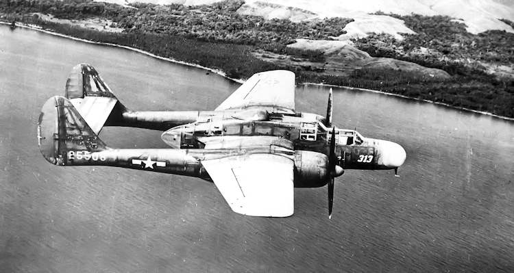 Northrop P-61A-1-NO Black Widow - 42-5508 of the 419th Night Fighter Squadron flying near Noemfoor, Schouten Islands, late 1944.